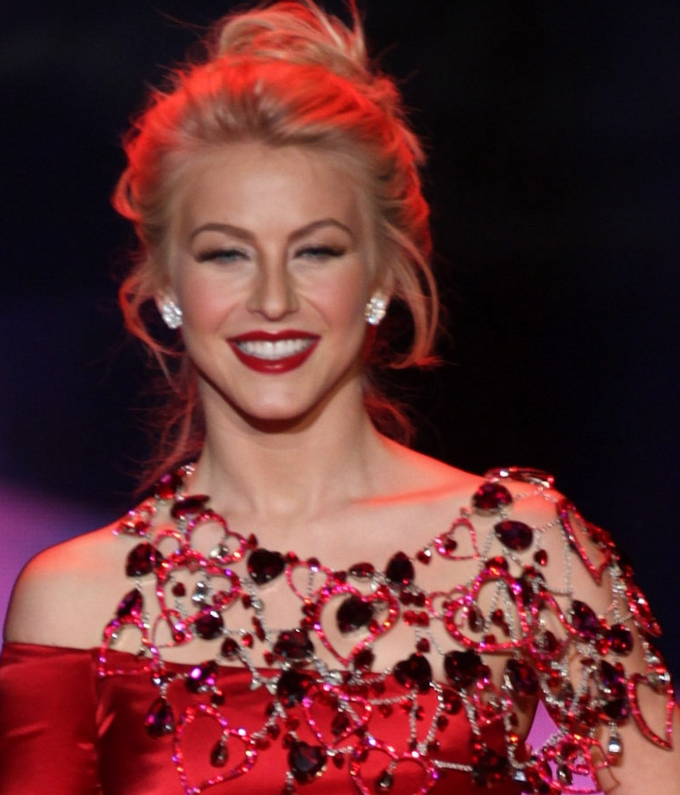 Julianne Hough at the 2012 The Heart Truth’s Red Dress Collection Fashion Show